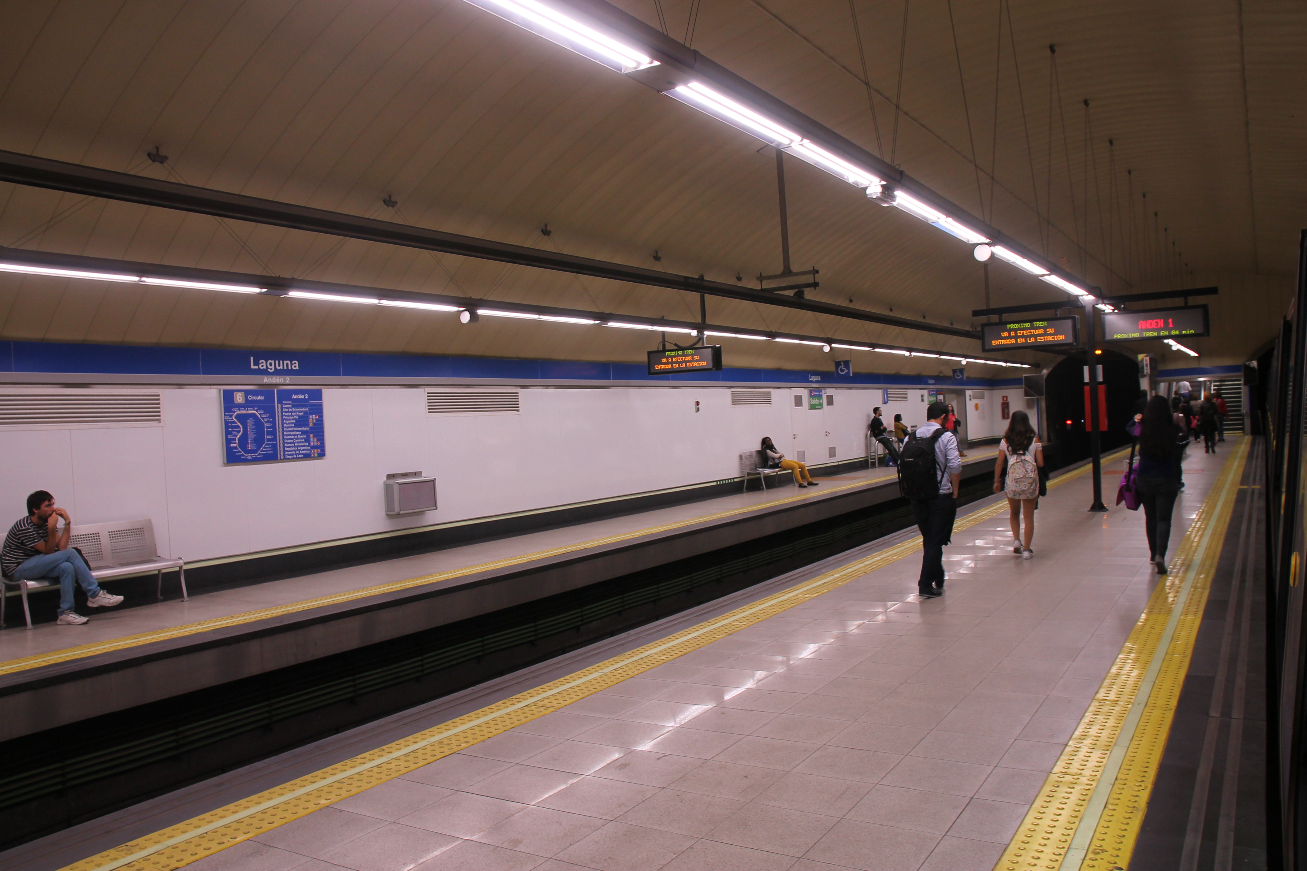 Estación de Laguna